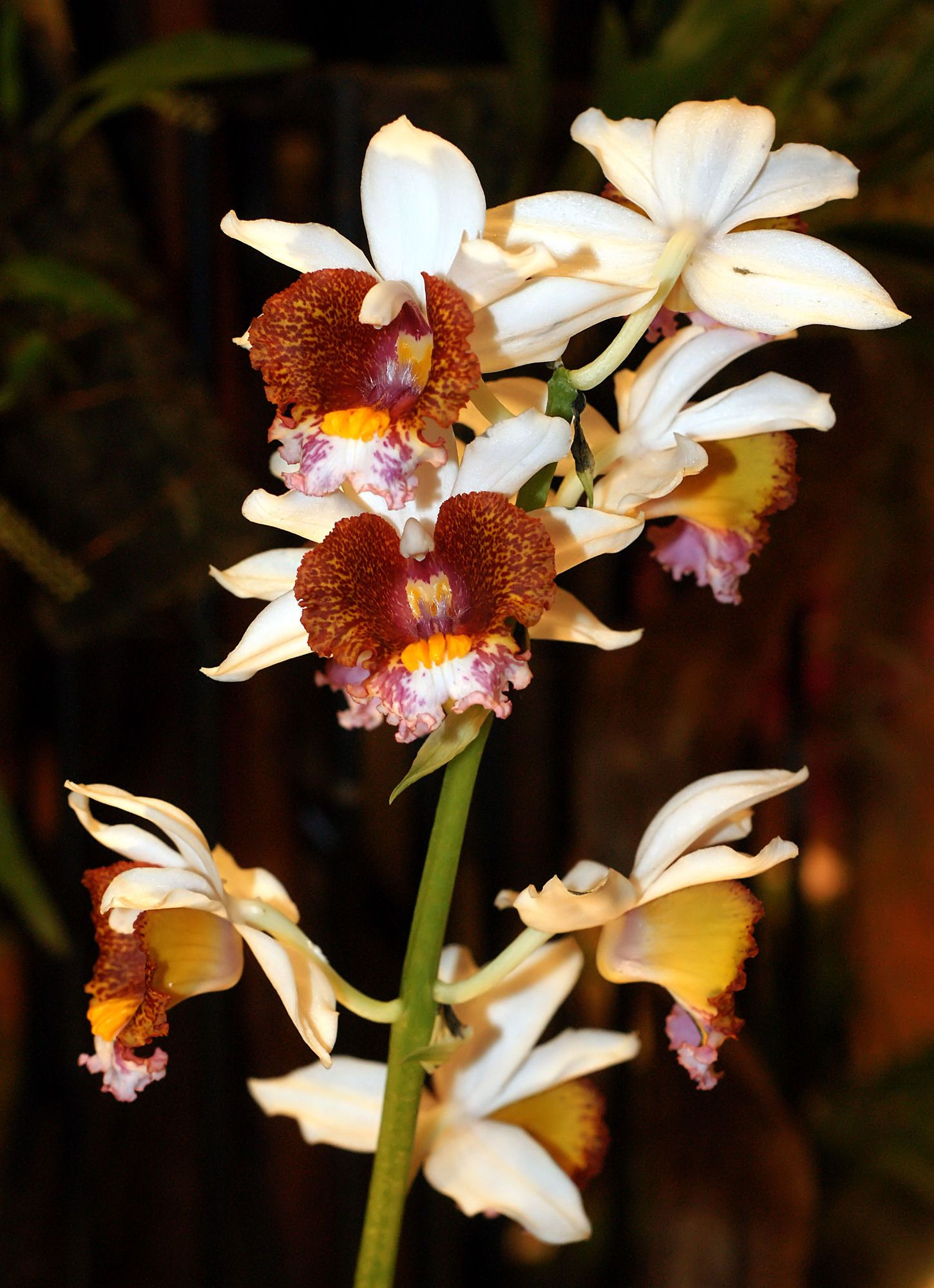 Gastrorchis lutea